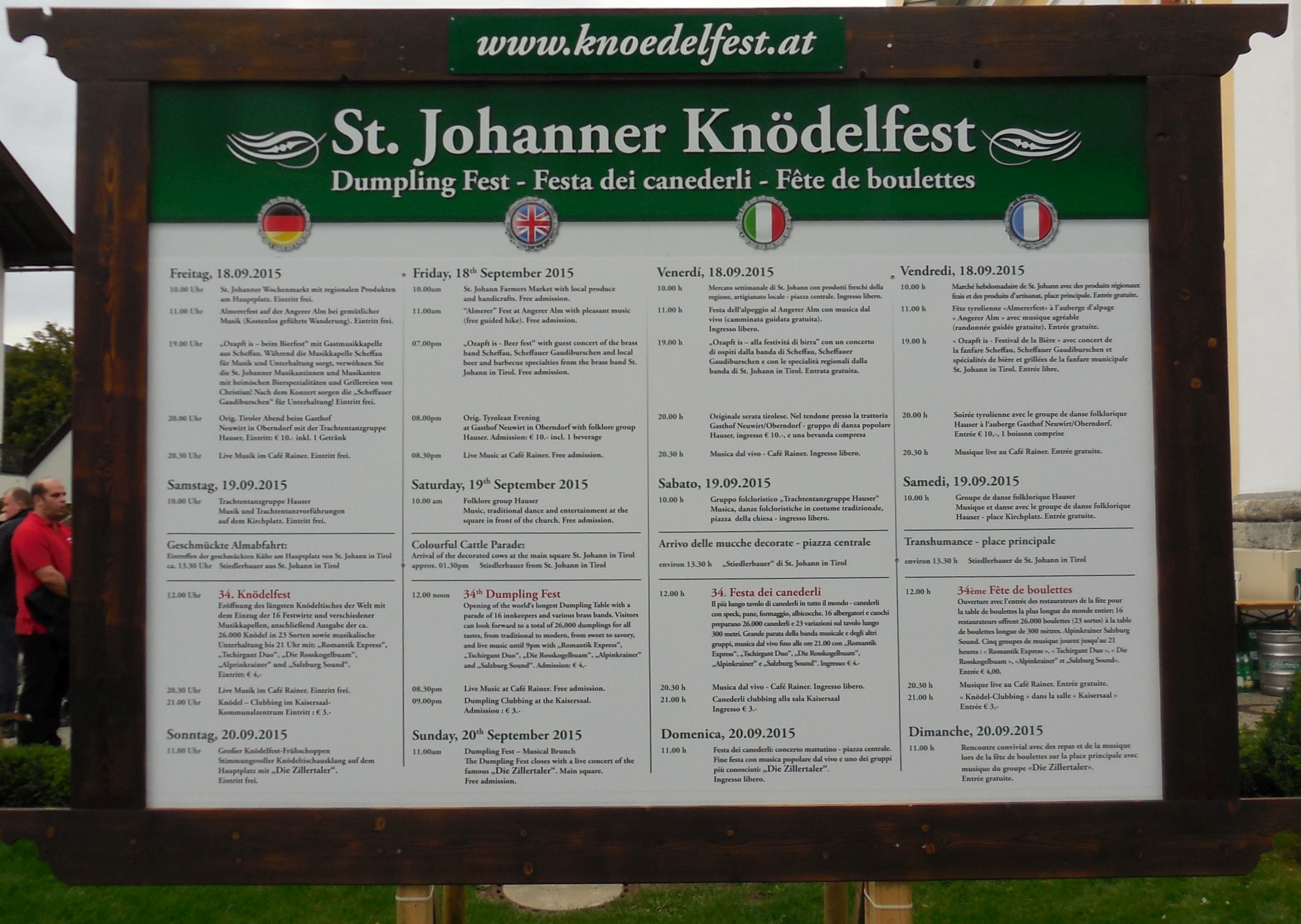 St. Johann in Tirol, programme of the dumplings festival 2015